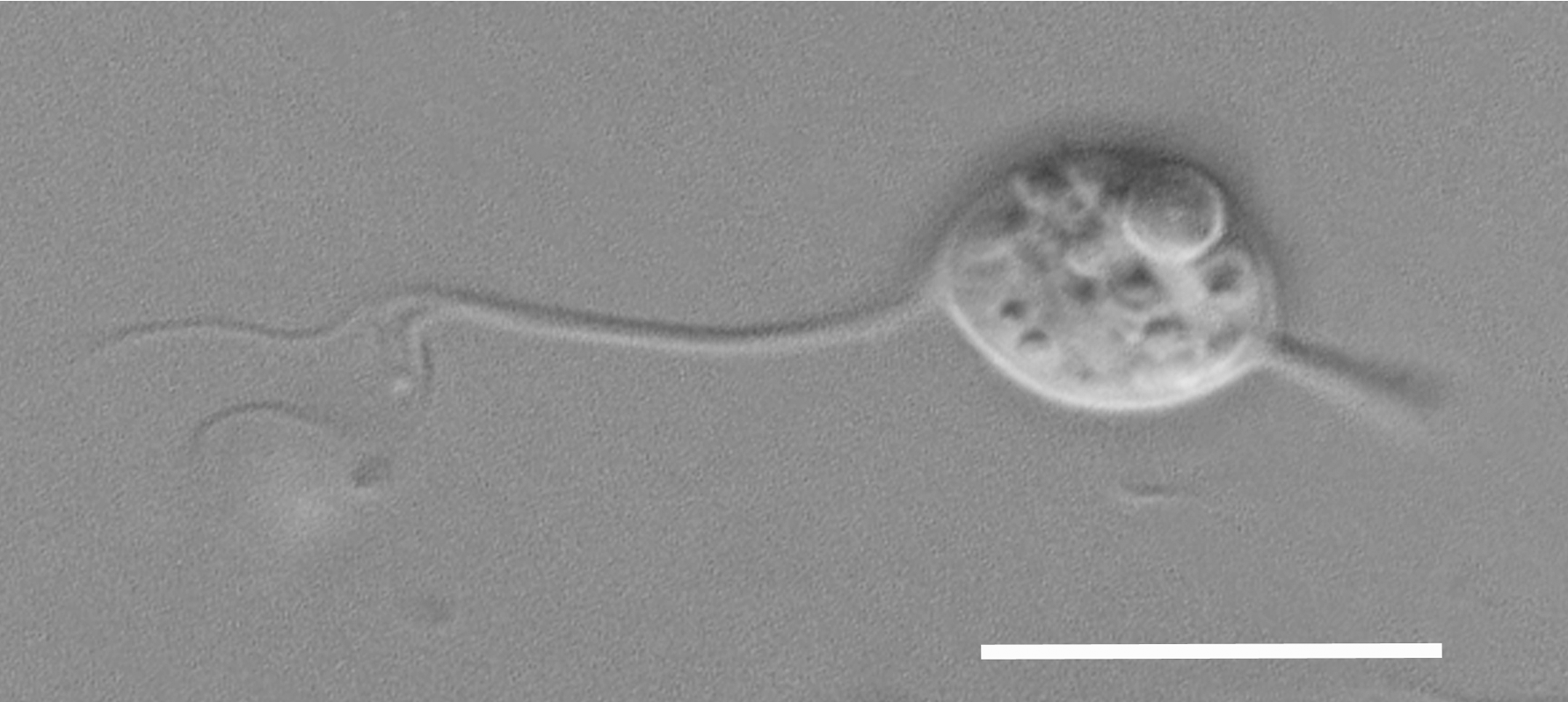 Morphology of Cthylla microfasciculumque by differential interference contrast light microscopy. (A) Overall body plan of Cthylla cells showing shape and size, a posteriorly protruding axostyle and subanterior emergence of flagellar bundle. Flagella typically bundle during the forward stroke of the flagellar beat but even then dissociate at the tips (A–C). In the backstroke, the bundle substantially dissociates (D–E). When dissociated, five anterior flagella can be seen consistently (B and clustered arrowheads in C), and in many views a single recurrent flagellum is also evident around the axostyle protrusion (A & lone arrowhead in C). (F &G). Low magnification of a small flagellate observed in Heterotermes tenuis with a small bundle of anterior flagella and a robust protruding axostyle similar to those of Cthylla. According to molecular surveys H. tenuis harbours the closest known relative of Cthulhu, and we predict that the environmental sequence is derived from this flagellate. All scale bars are 10 µm.